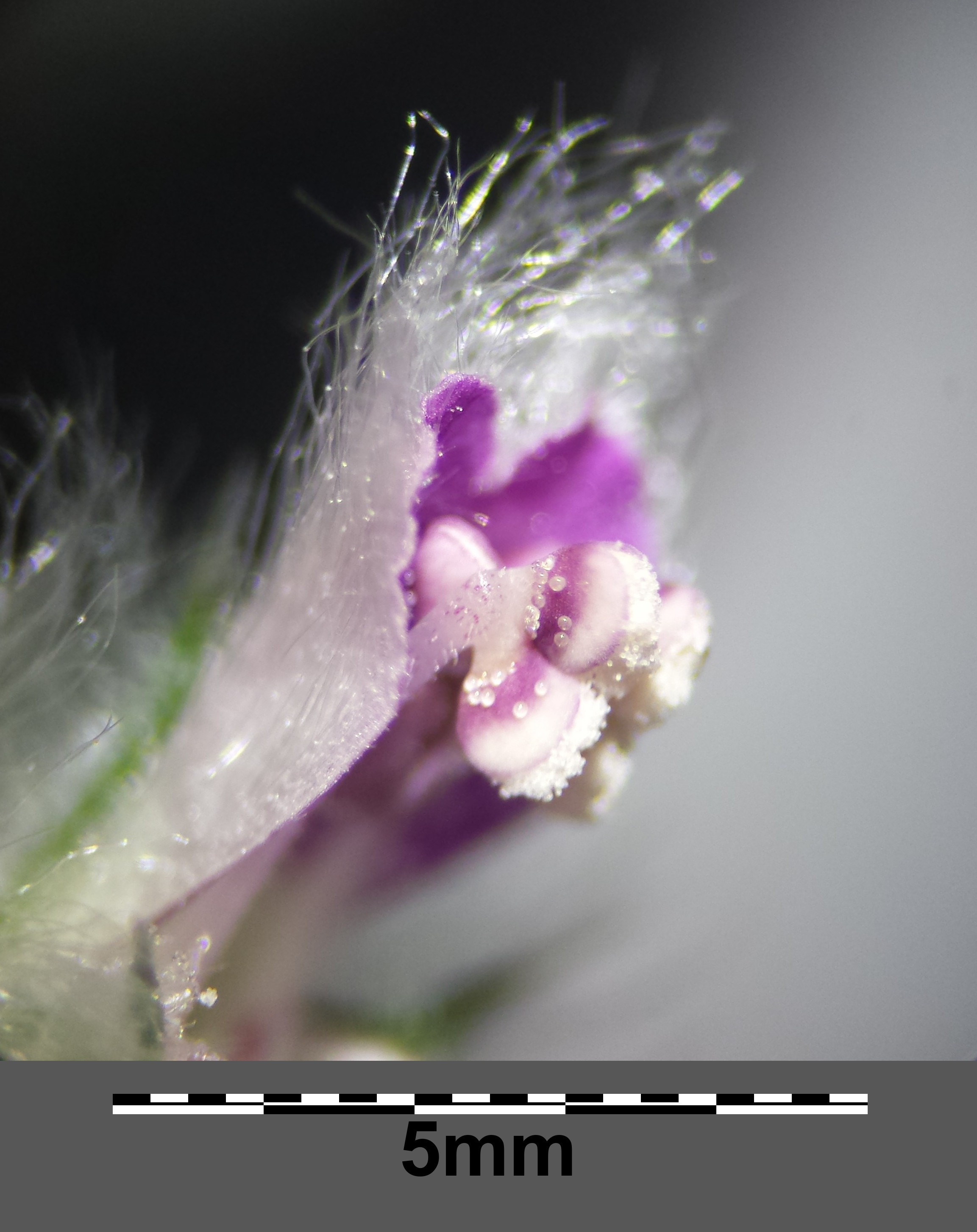 Upper lip of corolla with antheres Taxonym: Stachys germanica (subsp. germanica) ss Fischer et al. EfÖLS 2008 ISBN 978-3-85474-187-9 Location: Waldberg next to Niederkreuzstetten, district Mistelbach, Lower Austria - ca. 250 m a.s.l. Habitat: shrubbery